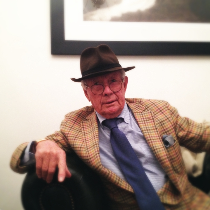 David Hamilton in december 2012